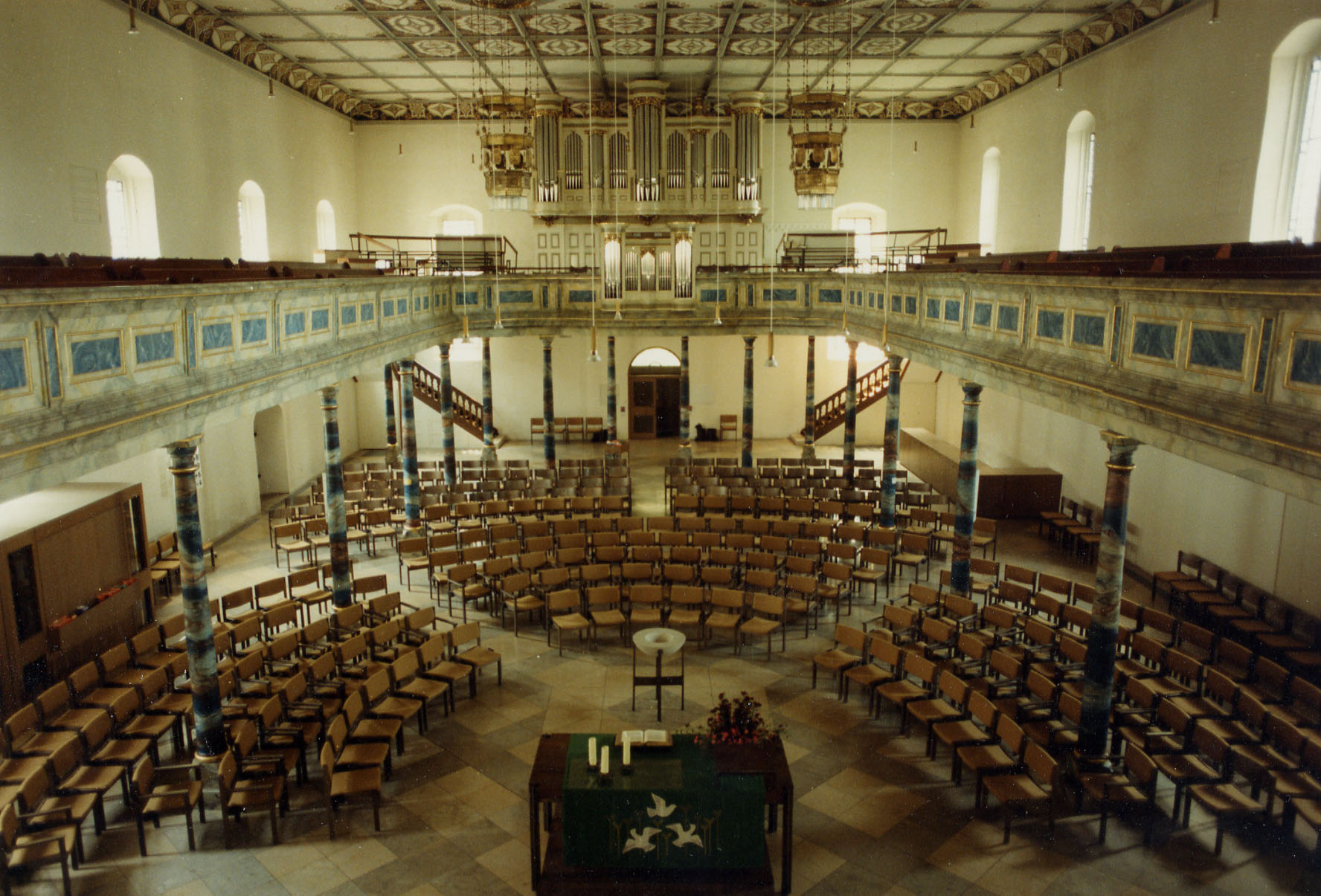 Goeppingen Town Church from Heinrich Schickhardt 1618/19. Last Renovation: 1976